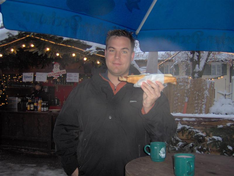 Taken in Garmisch, Germany at the Marieplatz. Depicts author modeling a bratwurst and Glühwein.